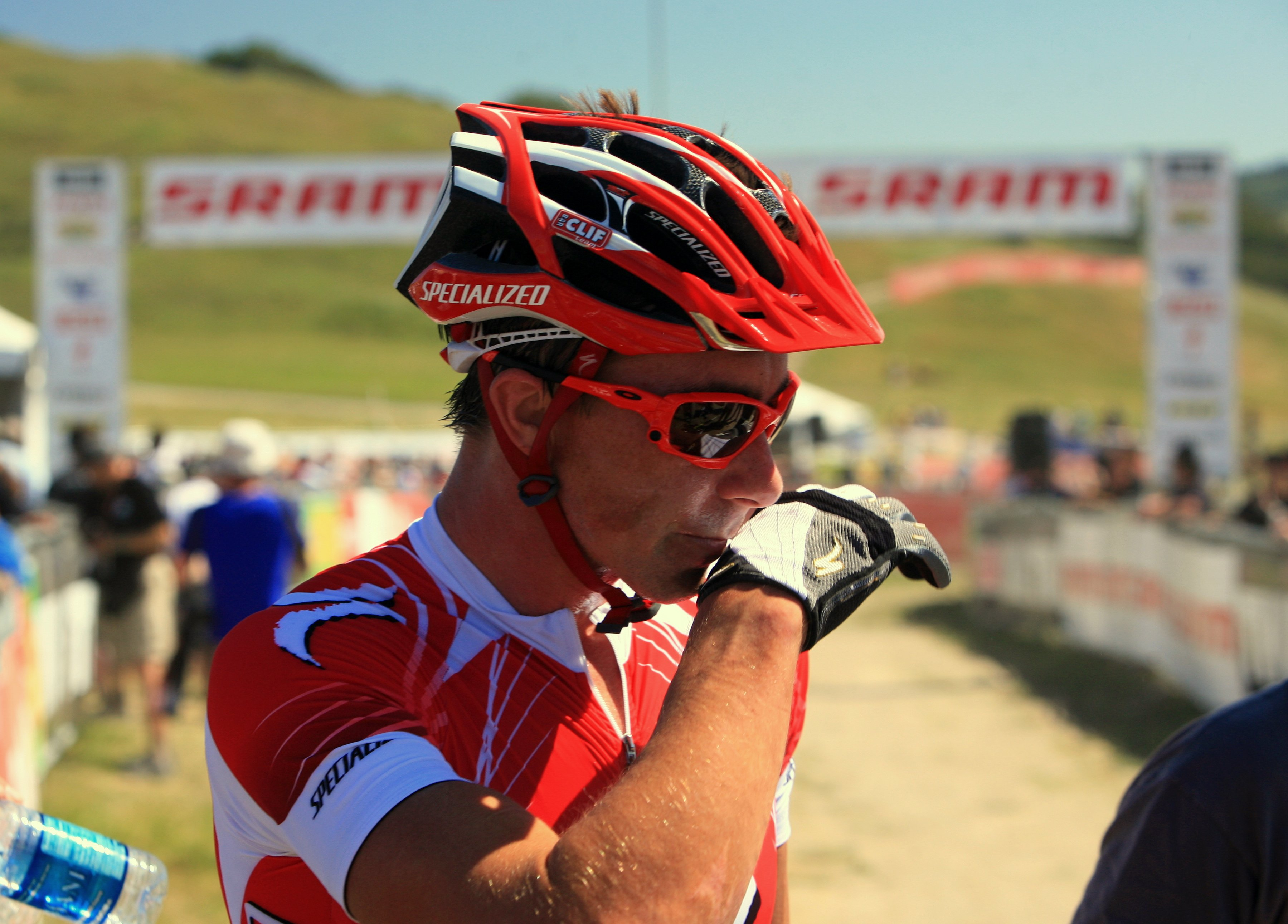 Todd Wells, after winning the Elite Men's Short Track competition at the 2009 Sea Otter Classic in Laguna Seca, CA.